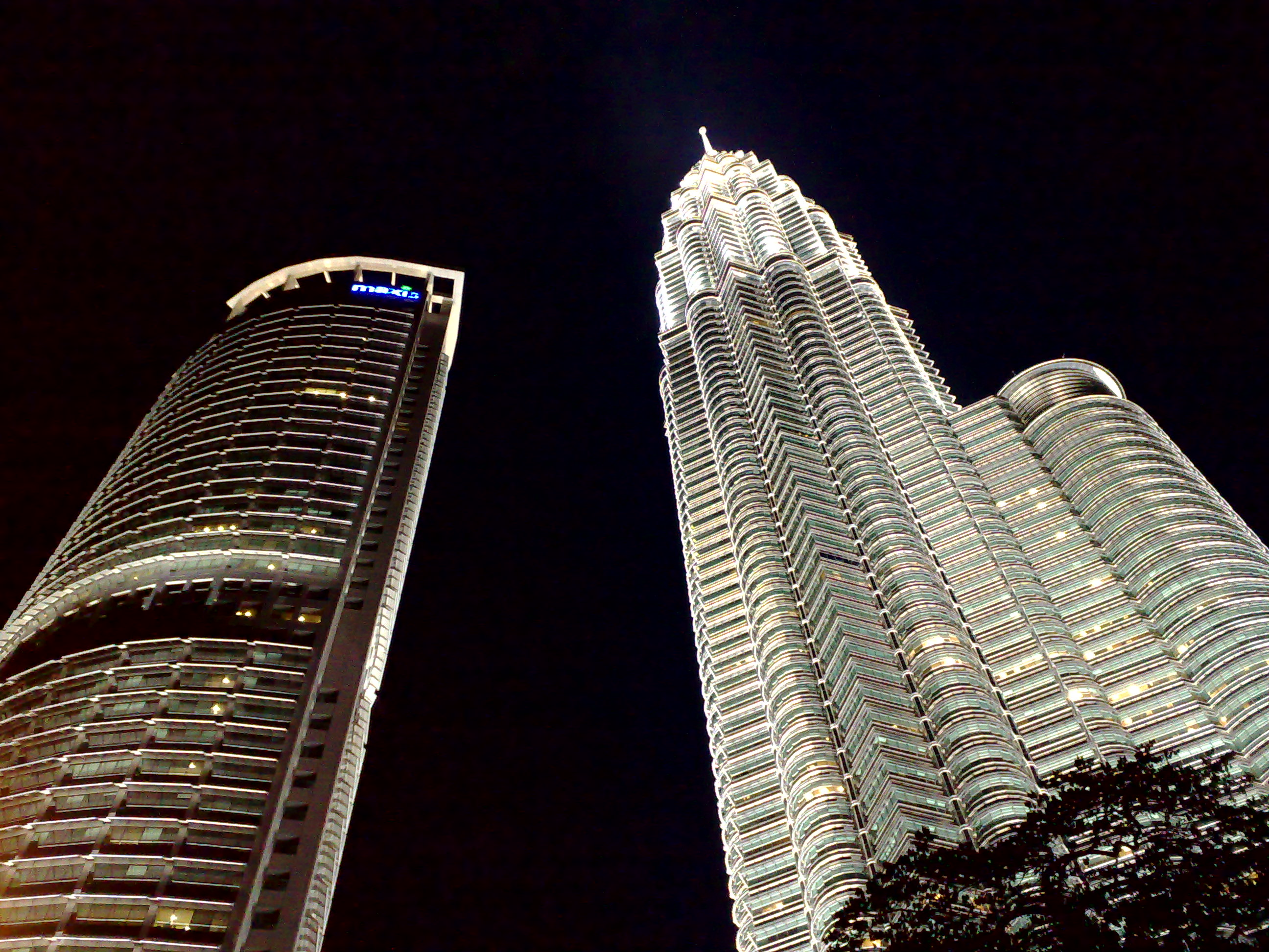 Petronas Tower 2 and Maxis Tower view at night from Jalan Ampang